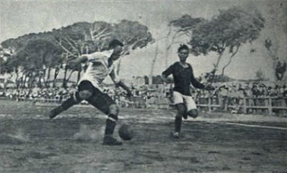 Livorno (Italy), July 17, 1921. U.S. Pro Vercelli — Bologna F.C. 2-1, Italian Championship 1920–21 Prima Categoria, Northern League Final. From left to right: Pro Vercelli's right-back Virginio Rosetta versus Bologna's forward Alberto Pozzi.